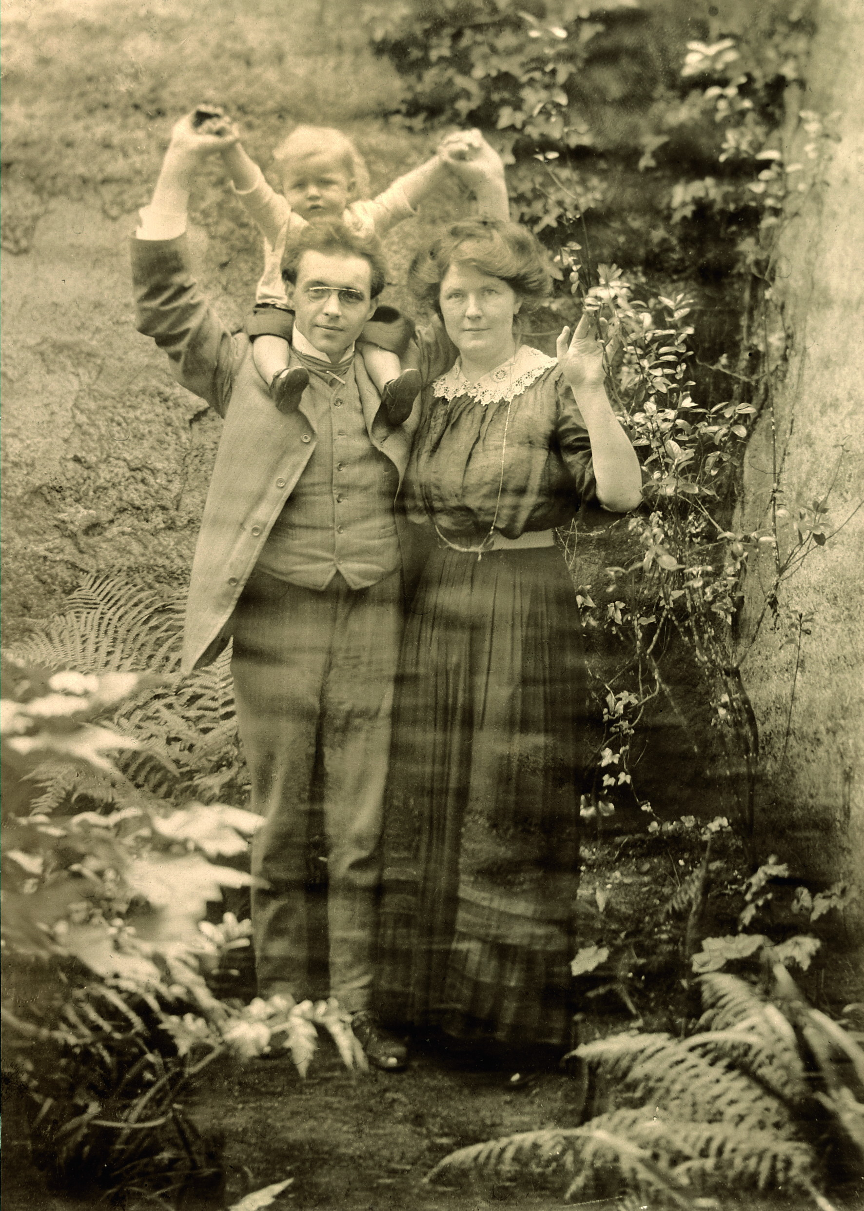 Aloys Fleischmann (1880-1964) and Tilly Fleischmann-Swertz (1882-1967) were musicians living and working in Cork, Ireland. They are photographed here with their only child Aloys